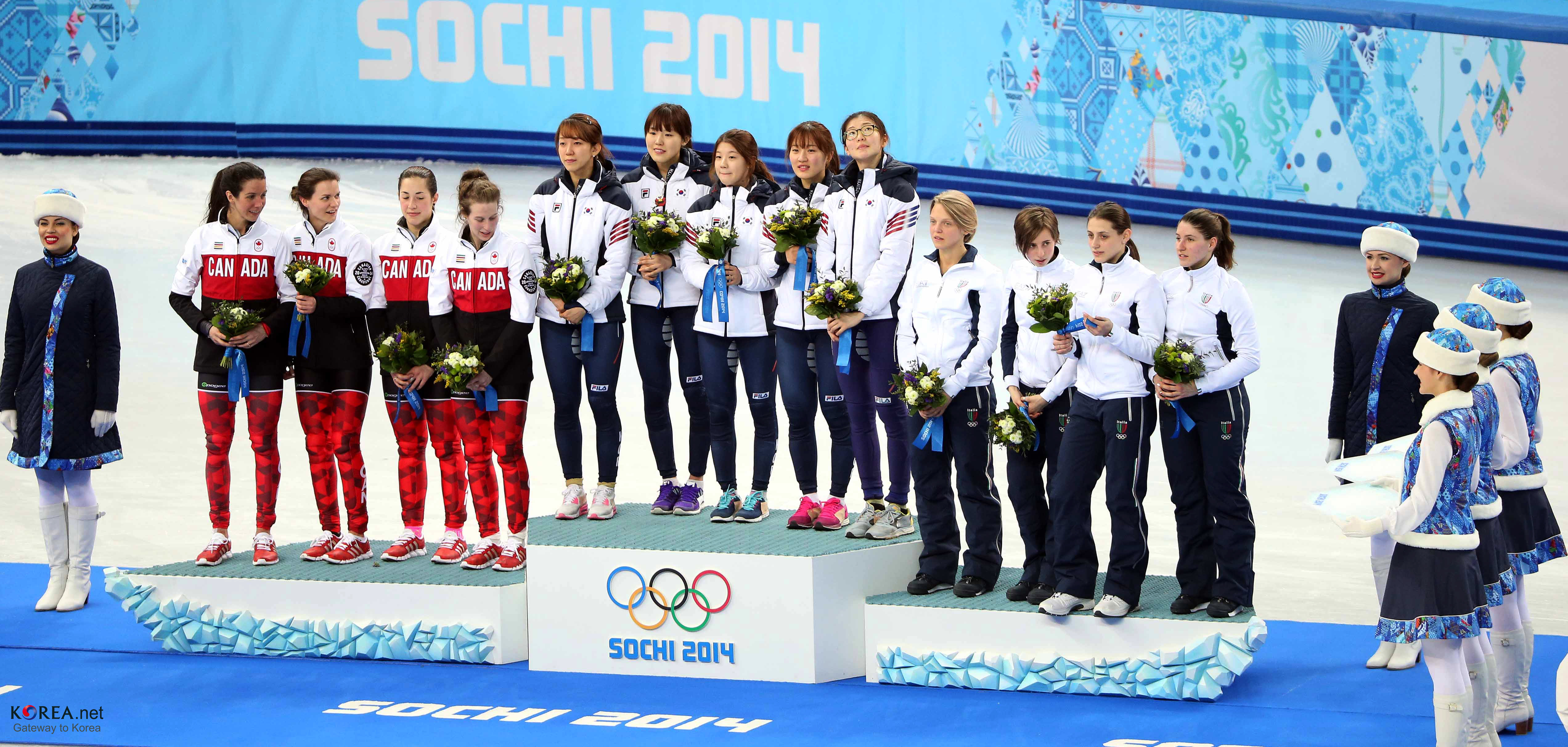 Team Korea won the gold medal in the ladies' 3,000-meter short track relay at the Sochi 2014 Olympic Games in Sochi, Russia. February 18, 2014 Iceberg Skating Palace, Sochi, Russia Photo: The Korean Olympic Committee Related Articles -English- 'Olympic Silver Medal is Invaluable': Shim Suk-hee -Russian- «Серебряная олимпийская медаль бесценна», - Шим Сук Хи -Deutsch- ,Olympische Silbermedaille ist von unschätzbarem Wert‘: Shim Suk-hee -日本語- シム・ソッキ、「五輪銀メダルに満足」 한국 쇼트트랙 여자 대표팀 ‘2014 소치 동계올림픽’ 쇼트트랙 여자 3000m 계주 금메달 획득 2014-02-18 러시아, 소치. 아이스버그 스케이팅 팰리스 사진: 대한체육회